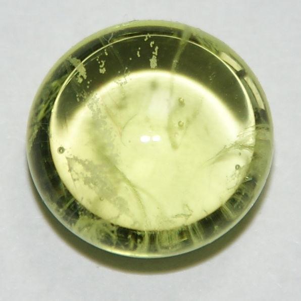 Green praseodymium glass bead, stained with praseodymium oxide (Pr2O3). Diameter 1 cm.